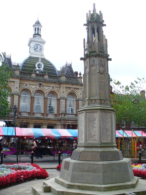 Retford War Memorial Impressive gothic obelisk in the middle of the large Market Square on market day.